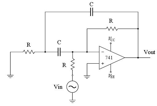 faywah